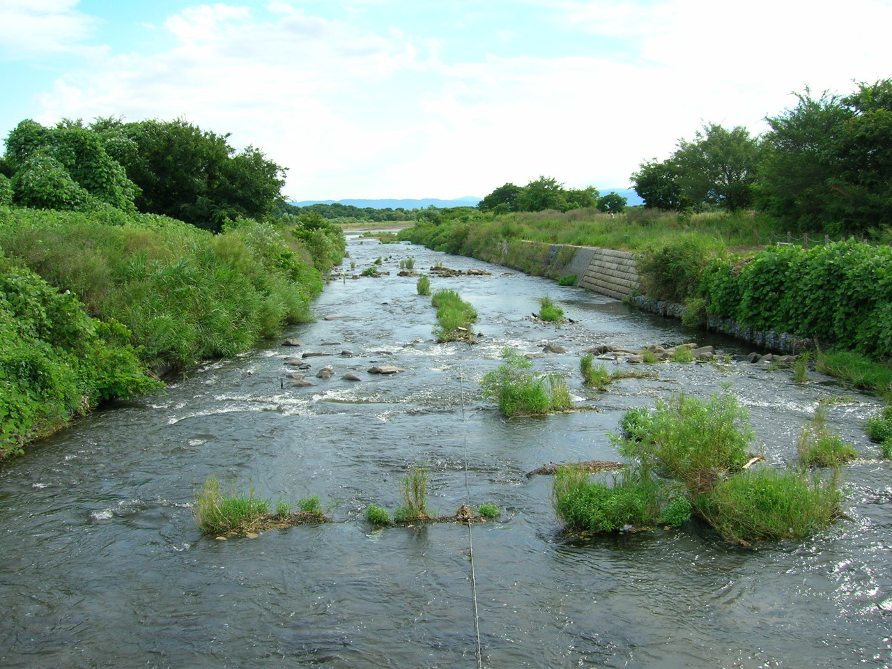 Shin-sakaigawa (Shin sakai river). Loc: Kakamigahara city, Gifu prefecture, Japan.